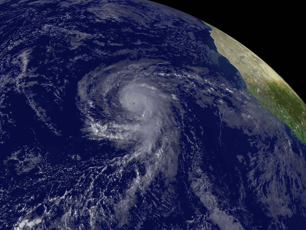 Fred is located west of the Cape Verde Islands and has maximum sustained winds near 120 MPH.